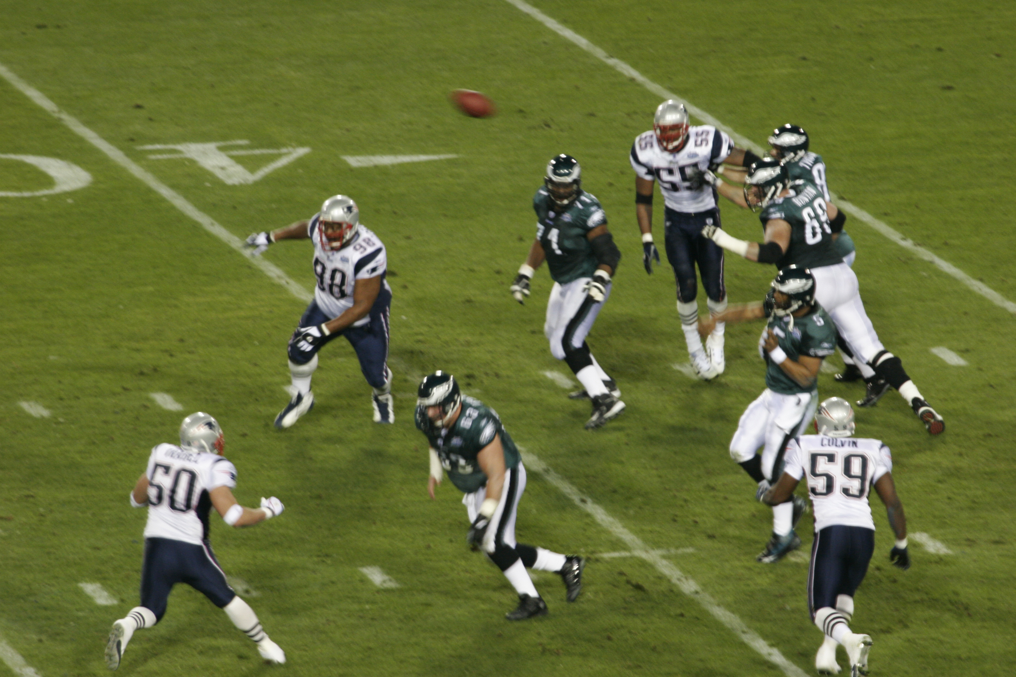 Donovan McNabb launches the ball during Super Bowl XXXIX. The Eagles threw for 324 yards and had three interceptions.